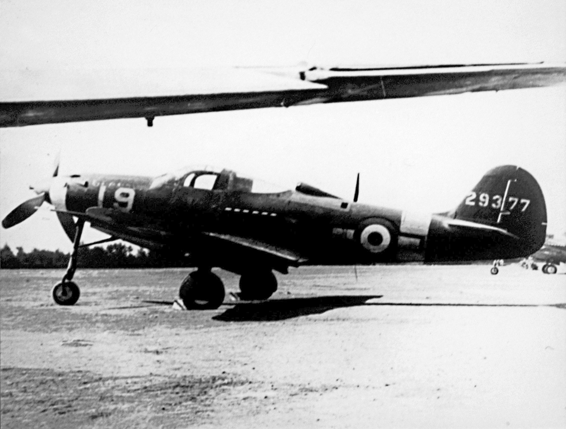 A Bell P-39N-1 Airacobra (USAAF serial 42-9377) which was supplied by the U.S. Army Air Force to the Italian Regia Aeronautica’s (Italian Co-Belligerent Air Force) 4th Stormo in the summer of 1944. Note the Italian insignia painted over the USAAF insignia on the fuselage.